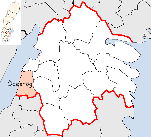 Ödeshög Municipality in Östergötland County Designed by me. Mere outlines are a PD source from